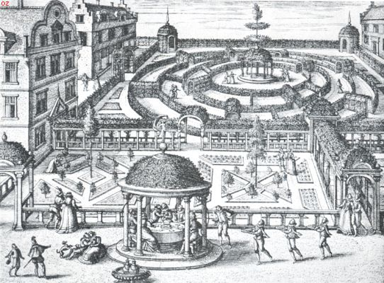 Garden design with dining party